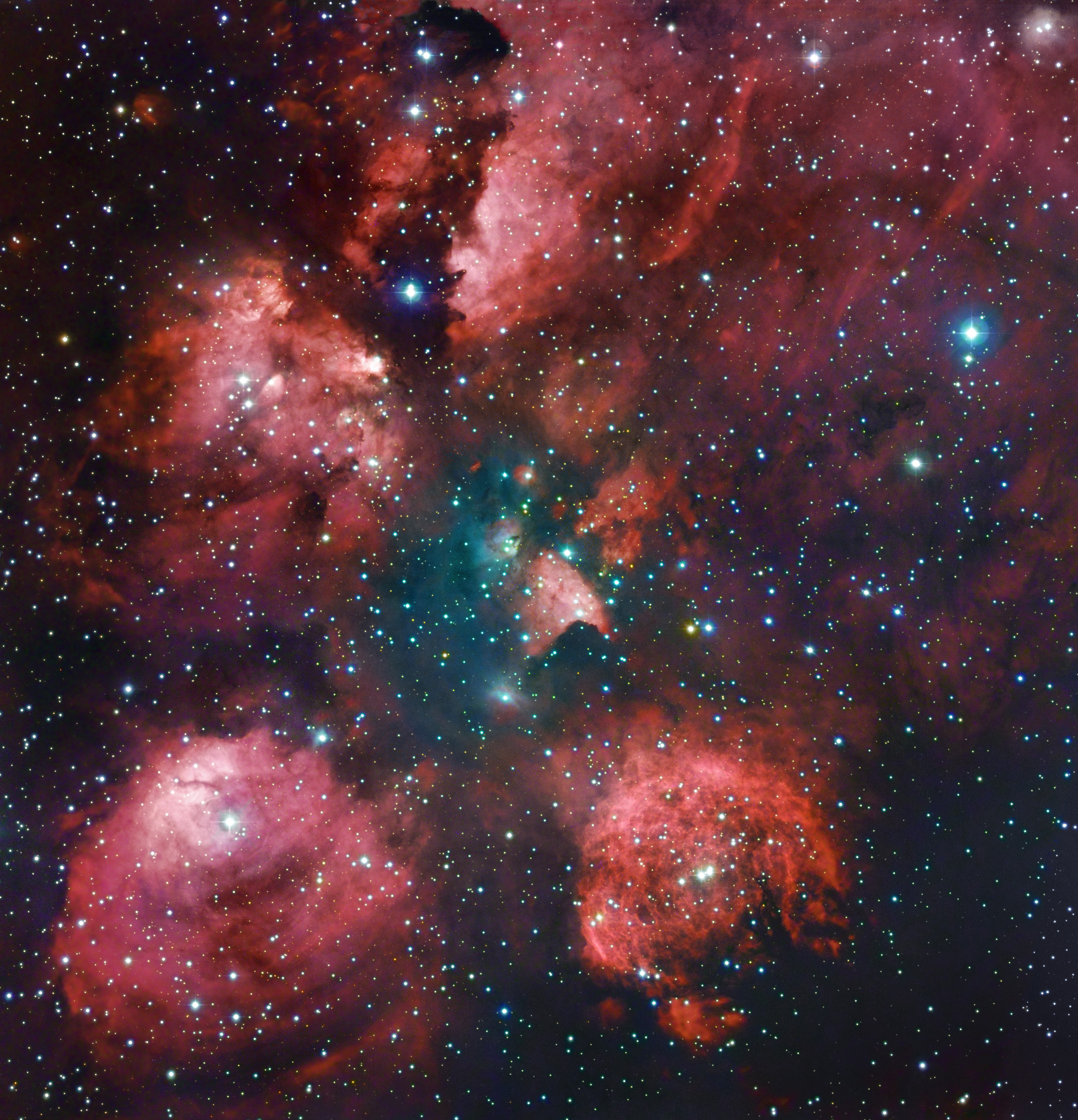 The Cat's Paw Nebula is revisited in a combination of exposures from the MPG/ESO 2.2-metre telescope and expert amateur astronomers Robert Gendler and Ryan M. Hannahoe. The distinctive shape of the nebula is revealed in reddish puffy clouds of glowing gas against a dark sky dotted with stars. The image was made by combining existing observations from the 2.2-metre MPG/ESO telescope of the La Silla Observatory in Chile (see ESO Photo Release eso1003) with 60 hours of exposures on a 0.4-metre telescope taken by Gendler and Hannahoe. The resolution of the existing 2.2-metre MPG/ESO telescope observations was combined (by using their “luminance” or brightness) with the colour information from Gendler and Hannahoe’s observations to produce a beautiful combination of data from amateur and professional telescopes. For example, the additional colour information brings out the faint blue nebulosity in the central region, which is not seen in the original ESO image, while the ESO data contribute their finer detail. The result is an image that is much more than the sum of its parts. The well-named Cat’s Paw Nebula (also known as NGC 6334) lies in the constellation of Scorpius (The Scorpion). Although it appears close to the centre of the Milky Way on the sky, it is relatively near to Earth, at a distance of about 5500 light-years. It is about 50 light-years across and is one of the most active star formation regions in our galaxy, containing massive, young brilliant blue stars, which have formed in the last few million years. It is host to possibly tens of thousands of stars in total, some of them visible and others still hidden in the clouds of gas and dust.